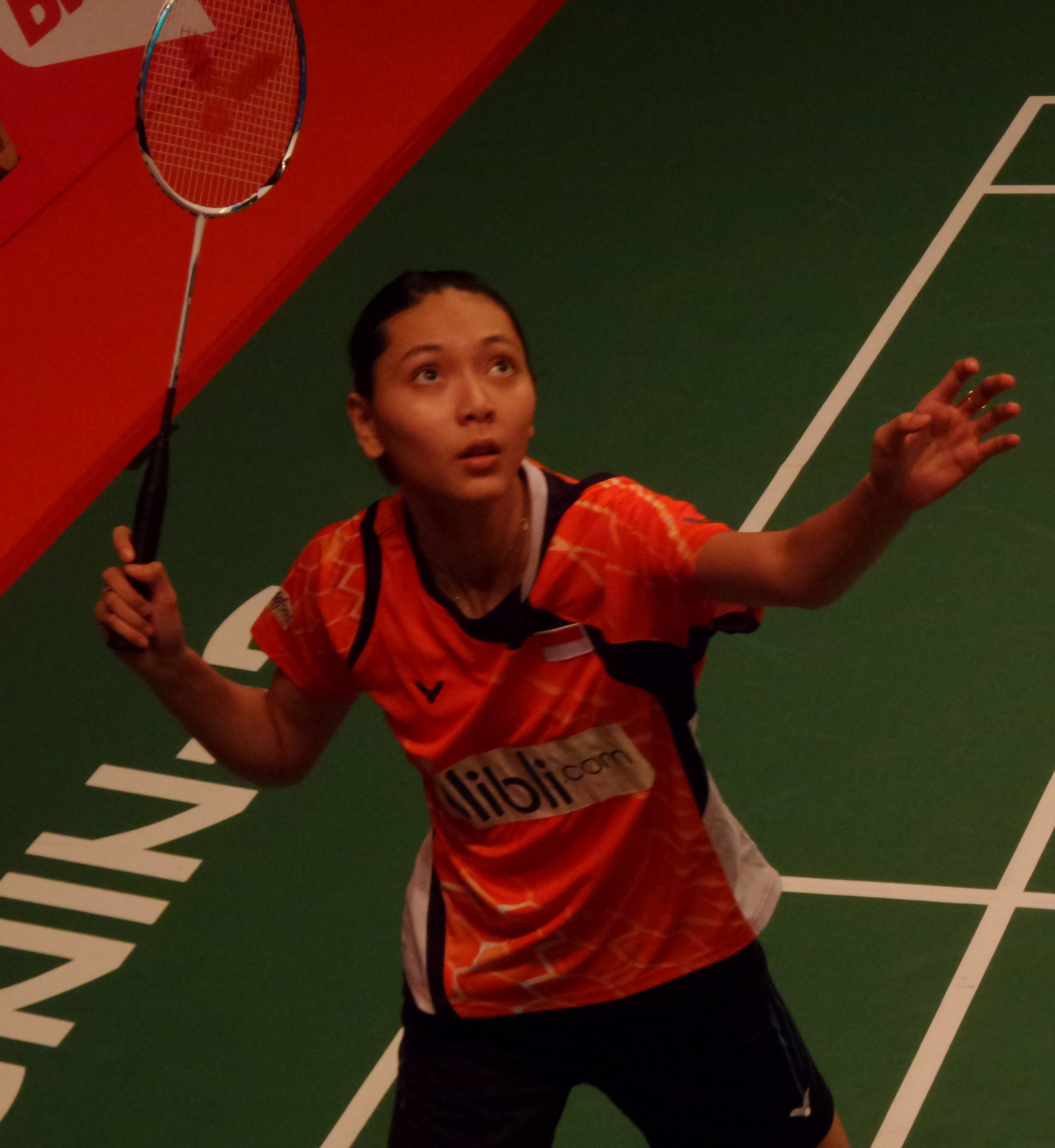 Gloria Emanuelle Widjaja in action during BWF World Championships Day 2